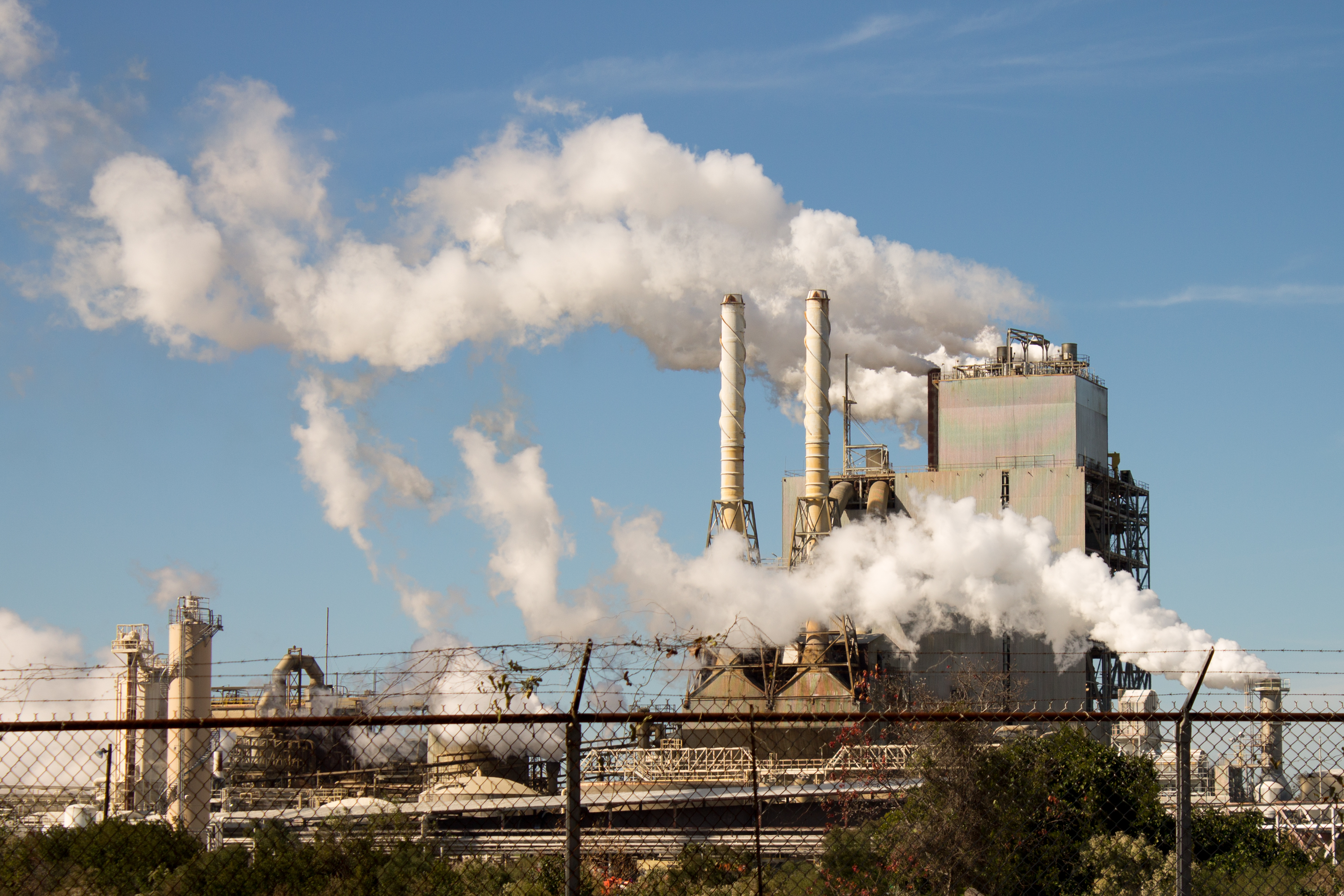 The Rock-Tenn factory in Panama City, FL.